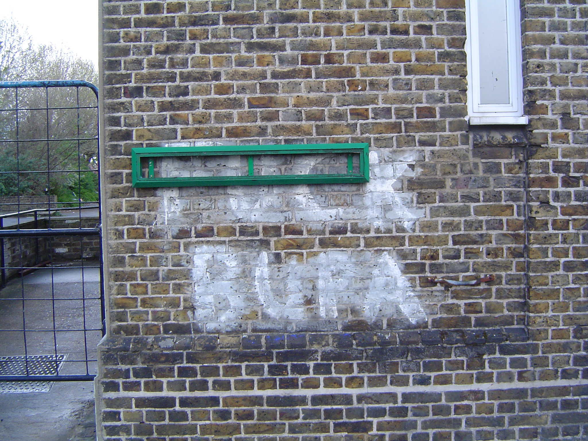 "Fuck BUPA" at St. Andrews Hospital, East London, UK.